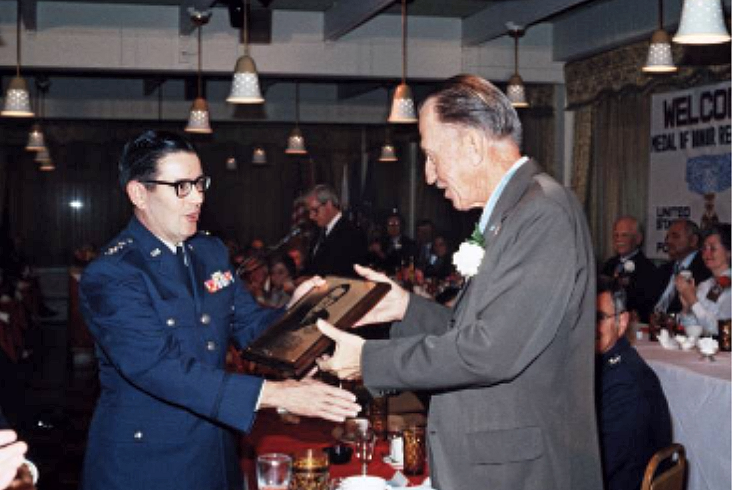 Medal of Honor winner B/Gen. James H. Howard, USAF ret., receiving a commemorative plaque from Gen. Robert T. March at a reunion banquet honoring US Air Force Medal of Honor recipients, held at Griffiss Air Force Base, New York. Gen. Howard was awarded the Medal of Honor for action as a fighter pilot in WWII.